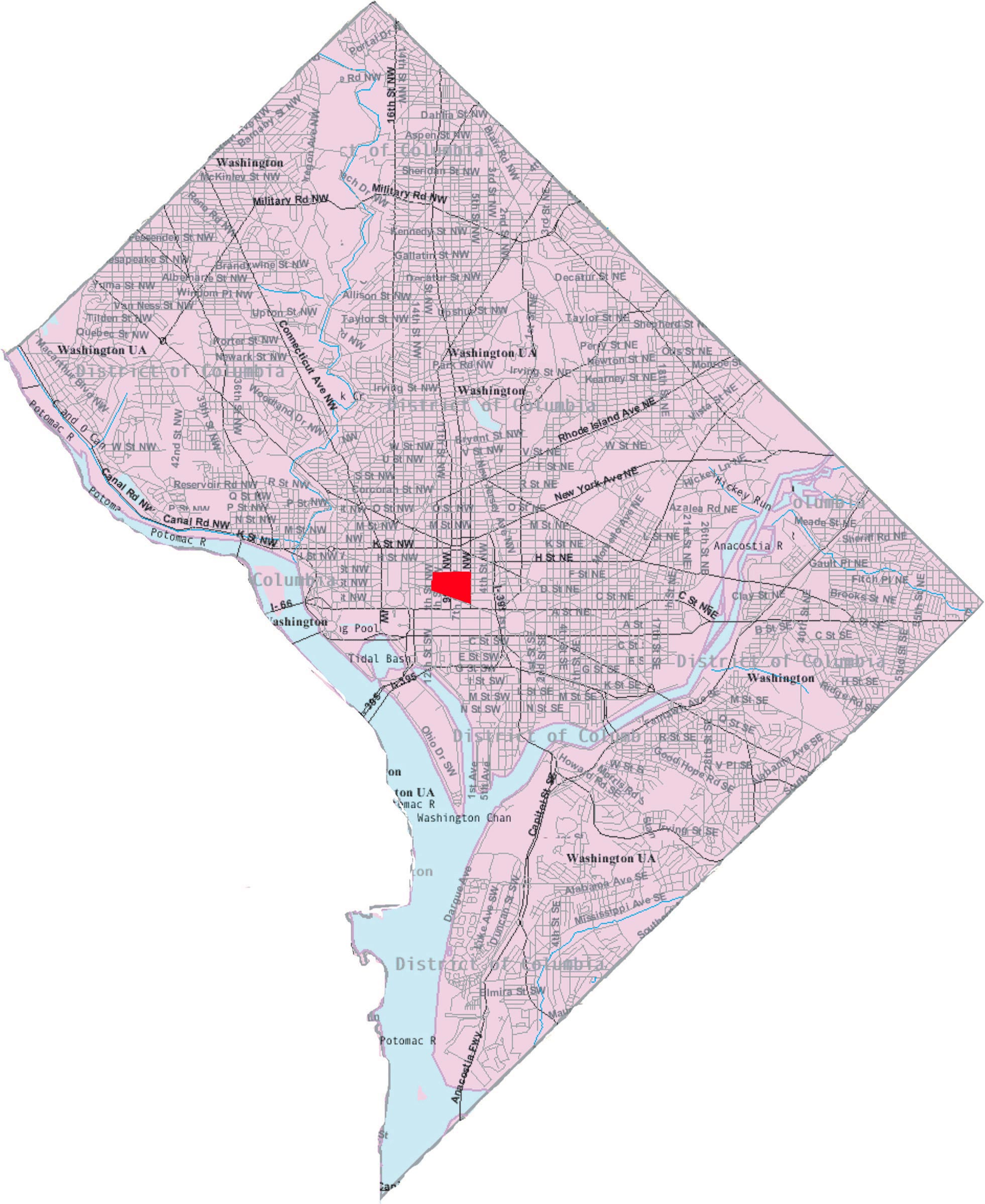 This image is a modified version of a self-generated reference map from the U.S. Census Bureau's American Factfinder at by Wikipedia user Msclguru.